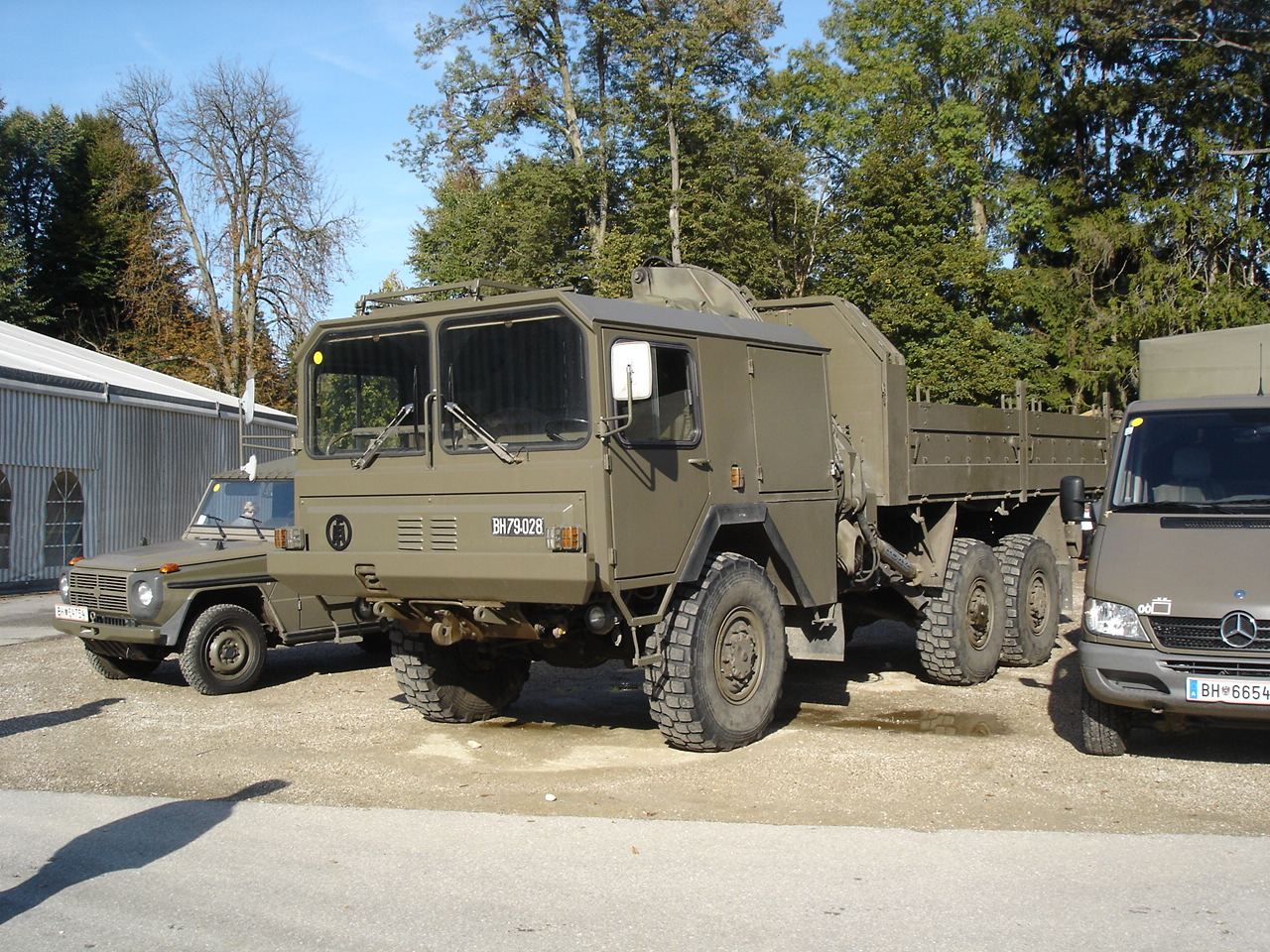 An ÖAF sLKW 20.320 G1 truck from the Austrian Military.